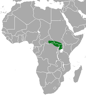 Pousargues' Mongoose (Dologale dybowskii) range